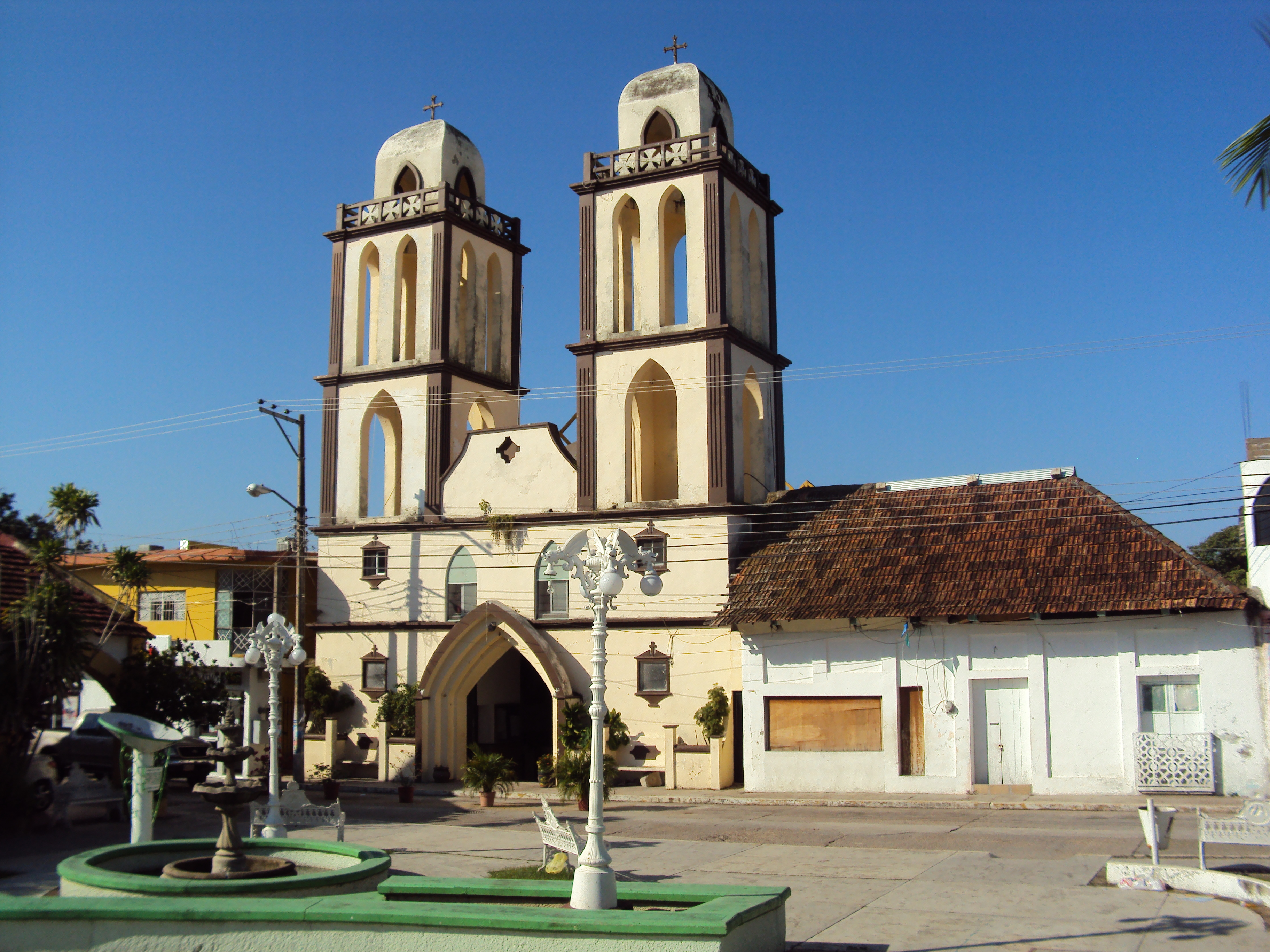 Church bosses in town, in honor of St. Mark the Evangelist, traditionally considered the author of the Gospel of Mark. Presented cover two and a pinnacle. In the first, Access displays a pointed arch, the second shows two windows with pointed arches, the auction it is a simple curved stone wall, flanked by two towers erected on the facade. The latter are of two bodies and high altitude, show arches on its sides, and the second body, similar pairs of arches. The interior has a single nave with side door, the walls on each side look windows and niches with pointed arches. Built in Gothic style, is located opposite the central park in downtown